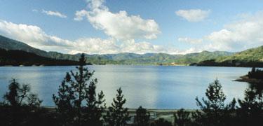 Whiskeytown Lake — in the Whiskeytown National Recreation Area, Shasta County, California.